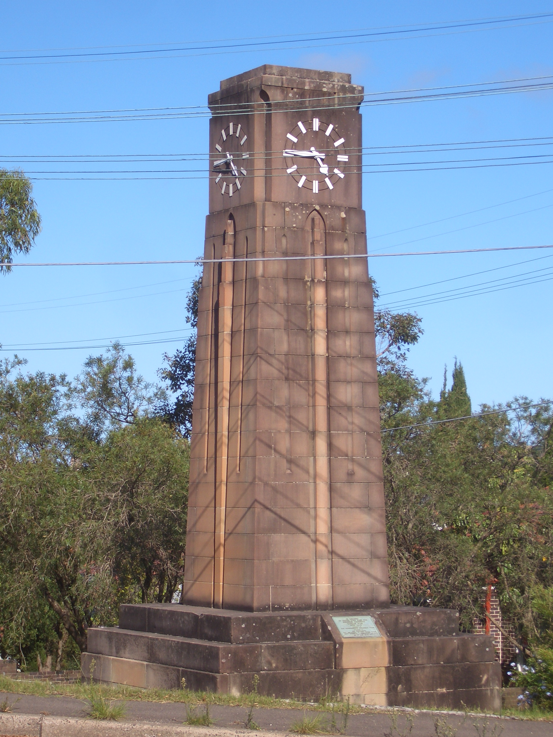 Northbridge Clock, Strathallen Avenue